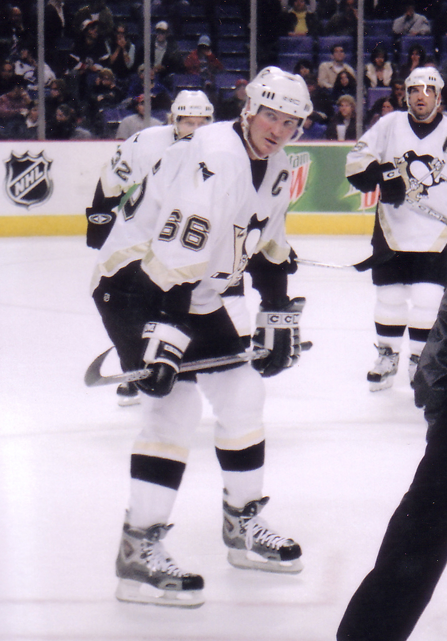 Mario Lemieux at the HSBC Arena in Buffalo.